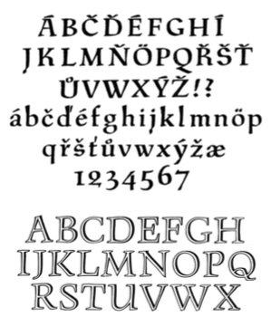 Typefaces President (1949) and Monument (1950) by Oldřich Menhart